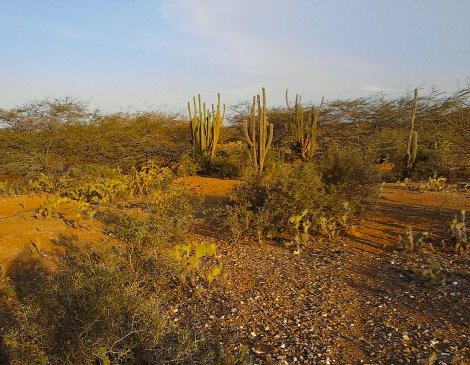 Landscape of La Guajira